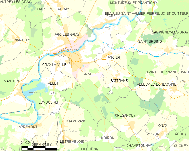 Map of French municipality